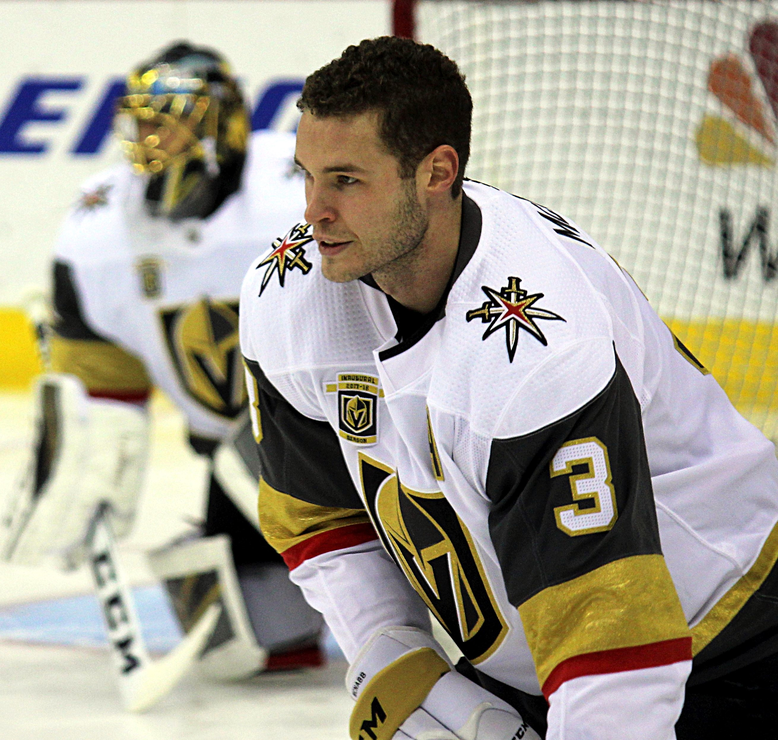 Vegas Golden Knights defenseman Brayden McNabb during a game against the Washington Capitals, February 4, 2018, at Capital One Arena in Washington, D.C.